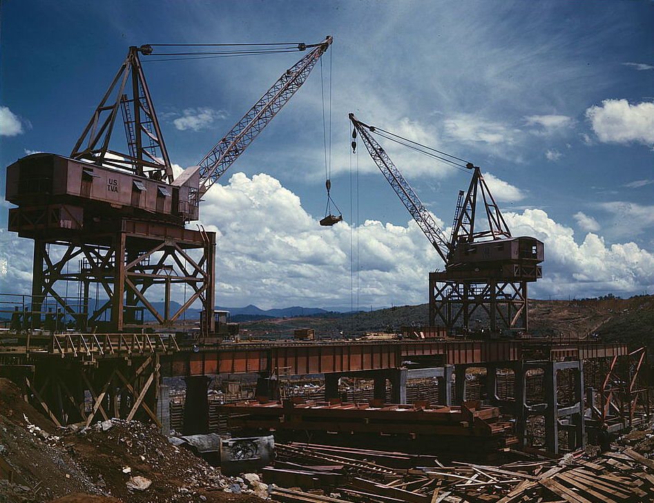 Construction work at the TVA's Douglas Dam. Tennessee, June 1942. Reproduction from color slide. LC-USW361-302. LC-DIG-fsac-1a35237. FSA/OWI Collection. Prints and Photographs Division, Library of Congress.